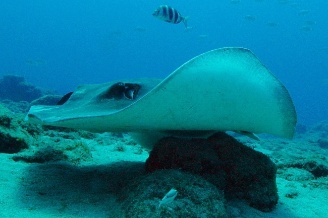 Dasyatis centroura - Roughtail Stingray / Chucho de clavos / Pastenague épineuse & Diplodus cervinus cervinus - Zebra seabream / Sargo breado / Sar tambour, Tenerife.